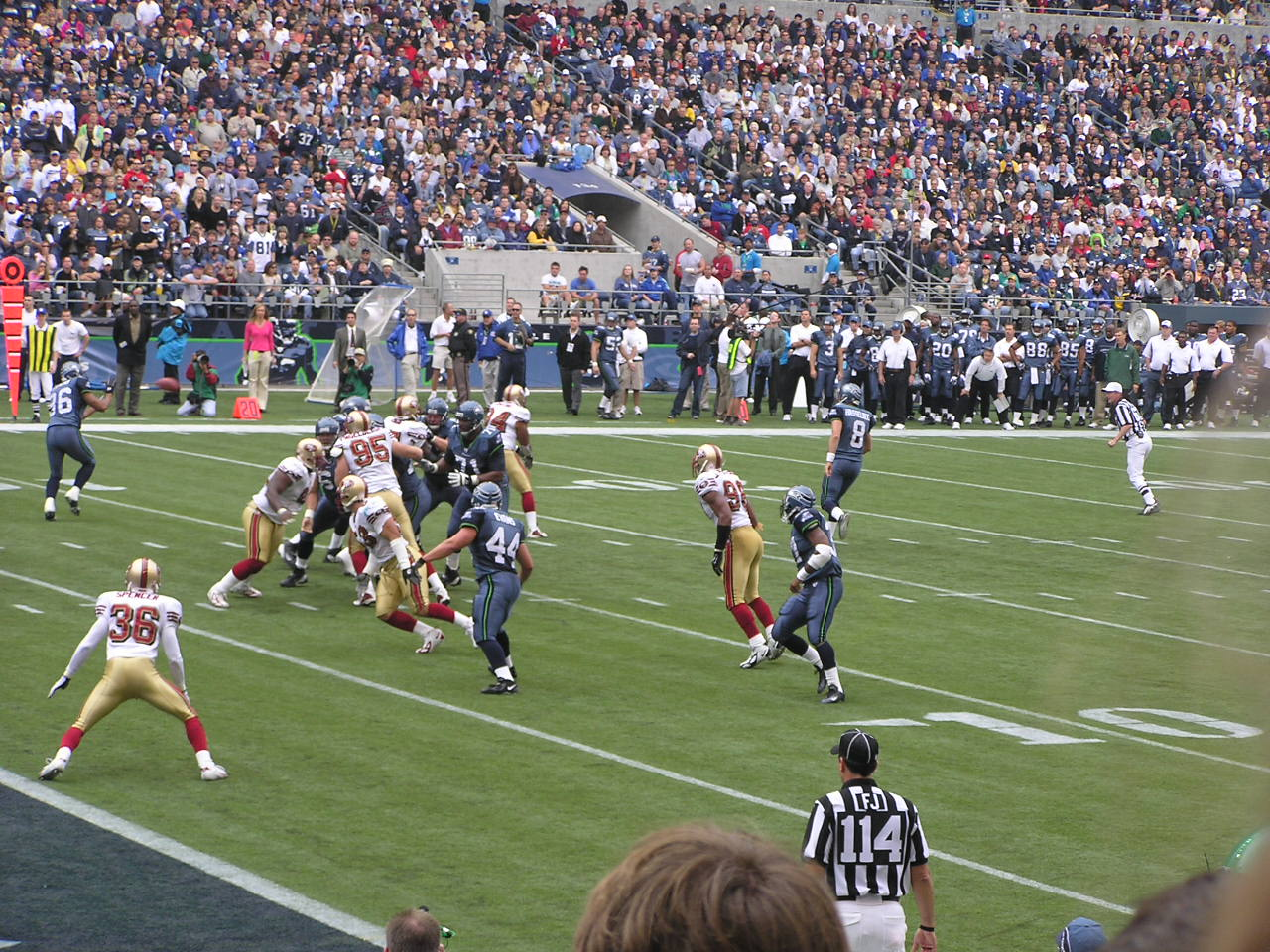 Seattle Seahawks vs. San Francisco 49ers (final score 34-0), September 26, 2004 ORIGINAL TITLE: "Touchdown!" ..."or at least it Will Be!"